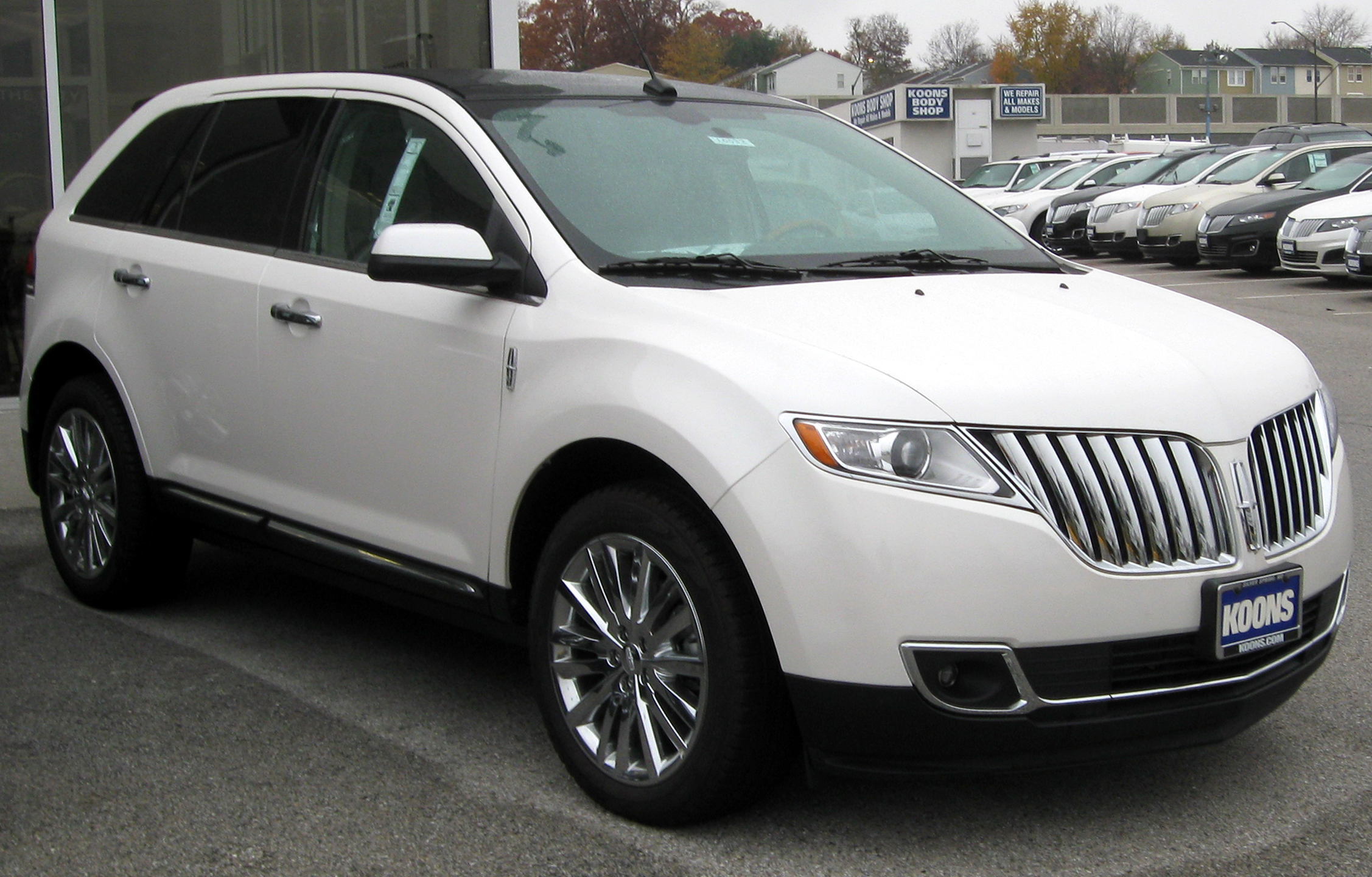 2011-2012 Lincoln MKX photographed in Silver Spring, Maryland, USA.